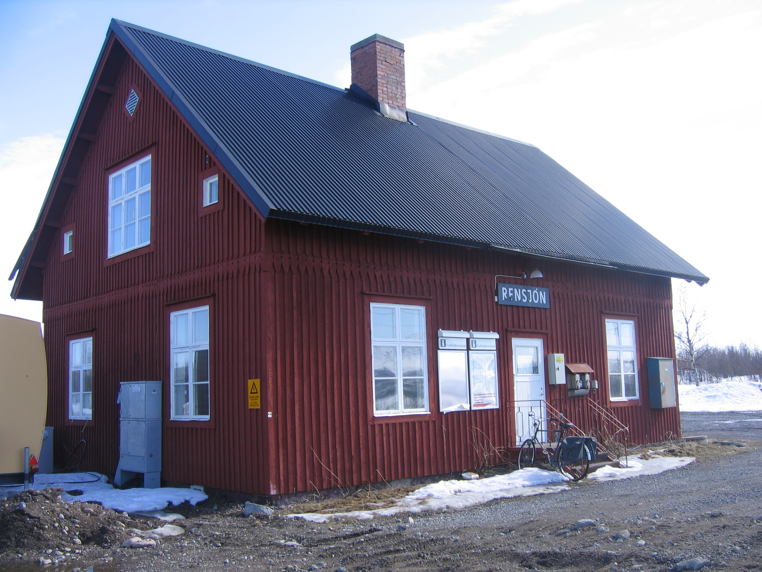 Rensjön railway station